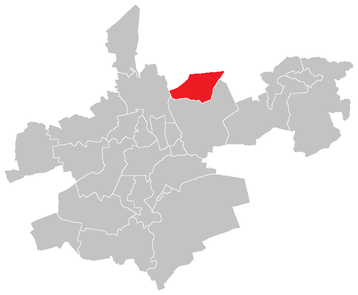 Location map of Olomouc district Týneček